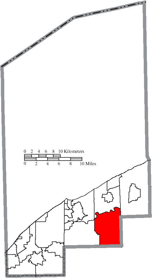 Map of the municipal and township boundaries of Lake County, Ohio, United States, as of the 2000 census, with the location of LeRoy Township highlighted. Township borders are shown only in unincorporated areas in order to differentiate incorporated and unincorporated areas more clearly.